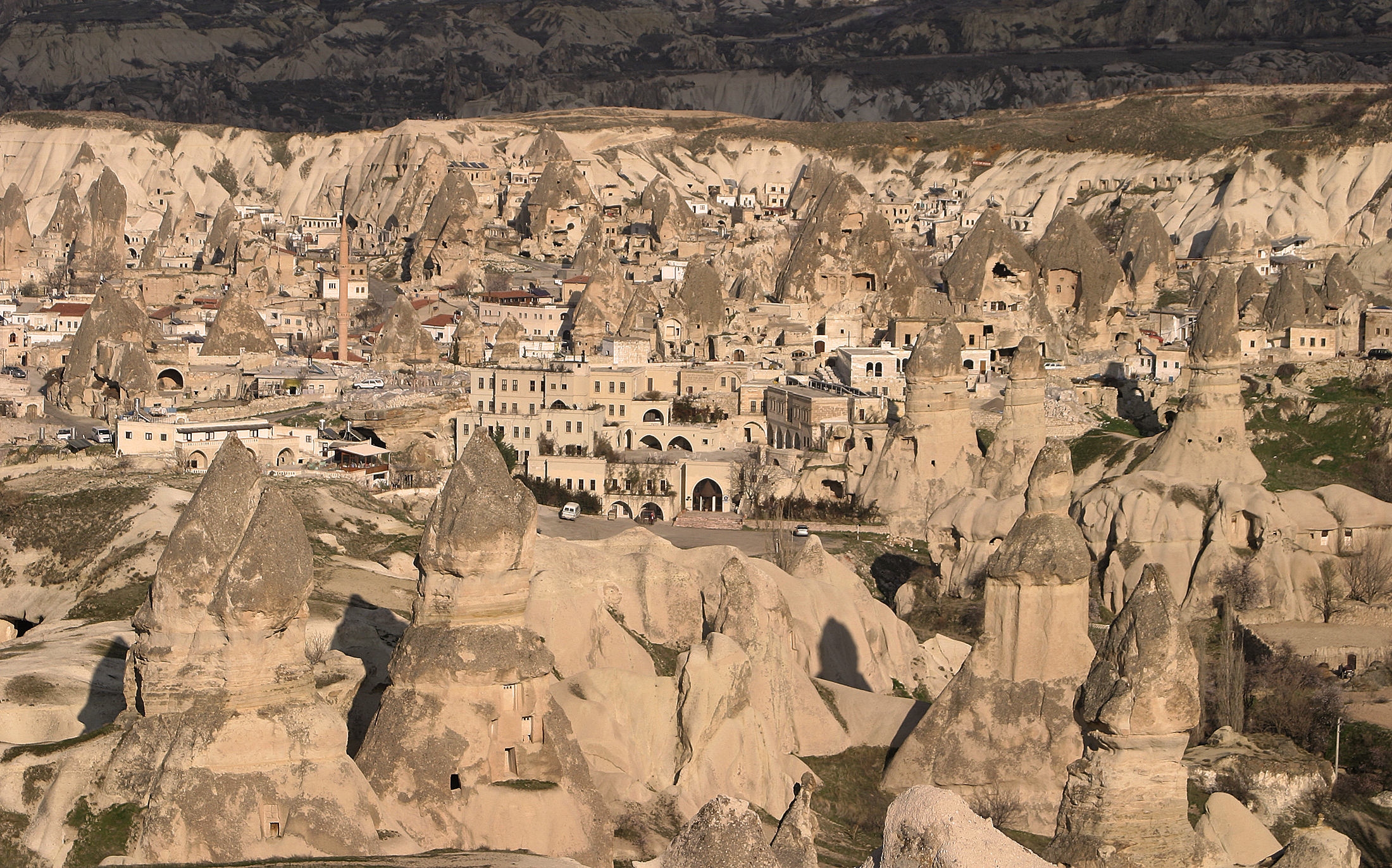 Göreme Valley in Cappadocia.Cappadocia, a region in central Turkey, is known for its Göreme National Park, which was added to the UNESCO World Heritage List in 1985.The first period of settlement within the region reaches to Roman period of Christian era. The area is also famous for its fairy chimneys rock formations, some of which reach 40 meters (130 feet) in height. Over thousands of years, wind and rain eroded layers of consolidated volcanic ash, or tuff, to form the sweeping landscape. From the 4th to 13th century AD, occupants of the area dug tunnels into the exposed rock face to build residences, stores, and churches which are home to irreplaceable Byzantine art.